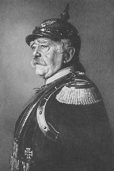 Otto von Bismarck in the year 1894